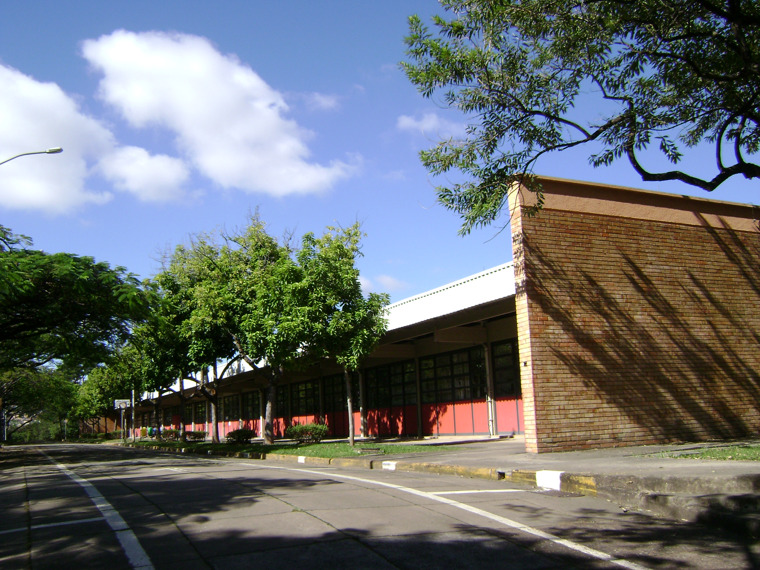 Entrance of Faculdade de Educação, in Universidade Federal de Minas Gerais, in Belo Horizonte, Brazil.